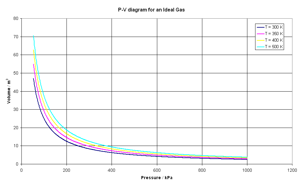 P-V diagram for an ideal gas